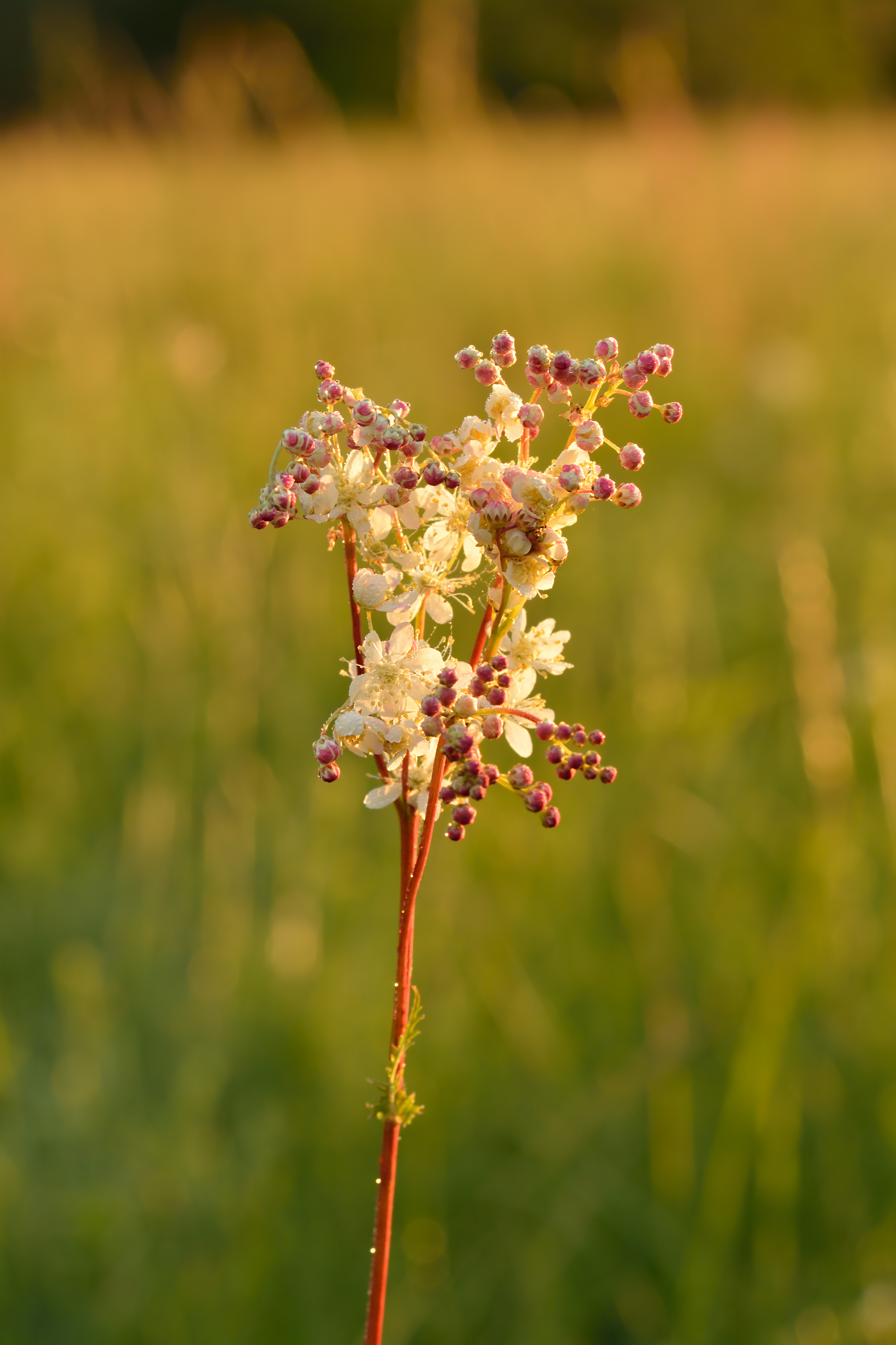 Dropwort (Filipendula vulgaris). Alvar (landform) in Keila, Northwestern Estonia.